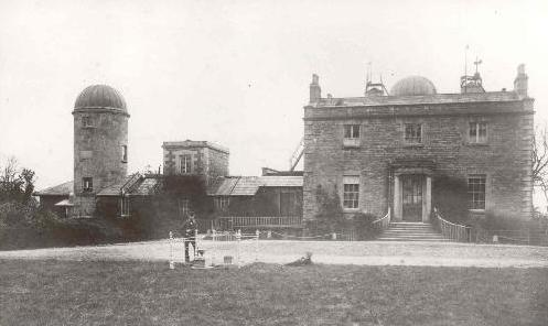 A photograph believed to have been taken in 1883 which shows the north face of the Armagh Observatory buildings. In the foreground we see the meteorological enclosure on the North Lawn containing the Square Rain Gauge (S2) and the Beckley Automatic Raingauge (Kew). On the roof of the main building we see the Robinson Cup Anemometer by Munroe with its recording apparatus, to the right, and the Campbell-Stokes Sunshine recorder to the left. Attached to the north window of the East Tower we see the metal box that contained the thermometers and behind the East Tower we see a part of the housing of the automatic thermograph by Beckley.